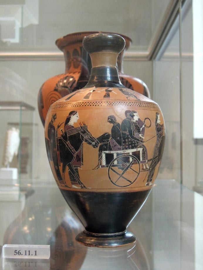 Attic black figure lekythos attributed to the Amasis Painter depicting a wedding procession, mid-6th century B.C. Gift of Walter C. Baker, 1956, 56.11.1, Metropolitan Museum of Art.